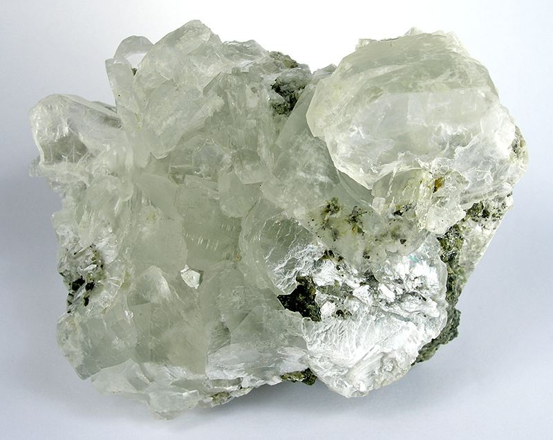 Brucite Locality: Bazhenovskoe deposit, Asbest, Ekaterinburgskaya (Sverdlovskaya) Oblast', Middle Urals, Urals Region, Russia (Locality at ) Size: 10.5 x 7.8 x 7.4 cm. Dealer Bill Larson obtained this piece from a miner in Russia, who said he collected it in 1985-1988. The brucite crystals on this matrix specimen are absolutely outstanding and reach 4.0 cm across ; and have pearlescent luster with gemmy, pastel green interiors. Brucite is fairly uncommon worldwide and sharp crystals even more so - usually it forms jumbly crusts. As a whole, this is an imposing piece for the transparency and form of so many good crystals richly aggregated on a bit of matrix.